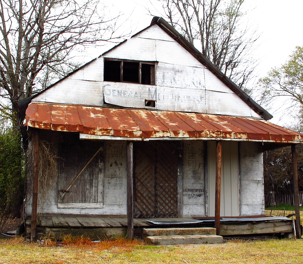 Abandoned store and post office in Baird, Mississippi.